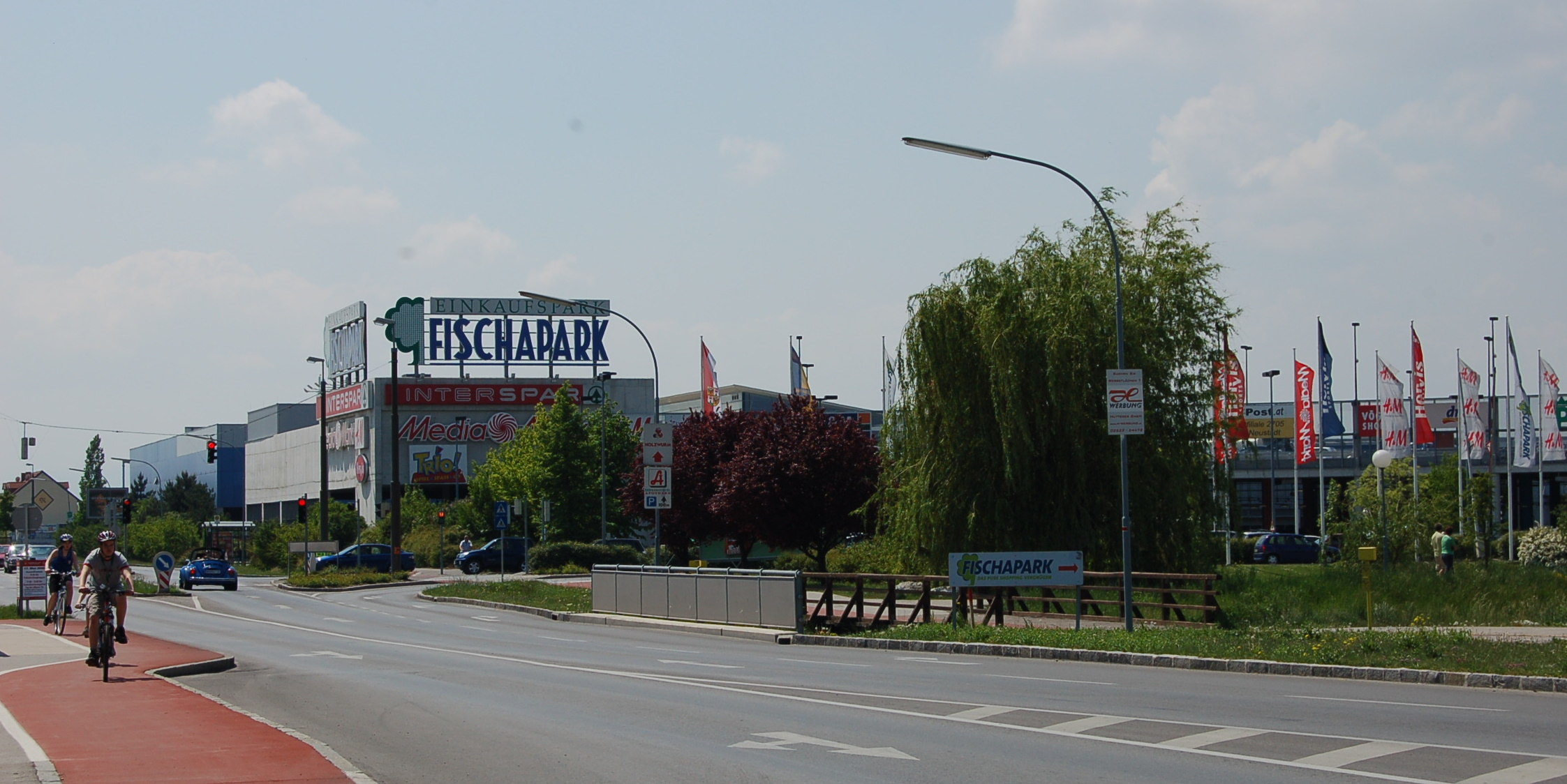 Fischapark shopping centre, Wiener Neustadt, Lower Austria